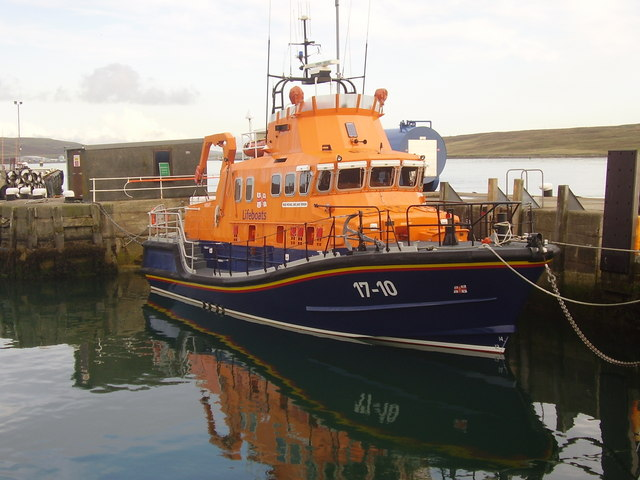 Lerwick lifeboat on station